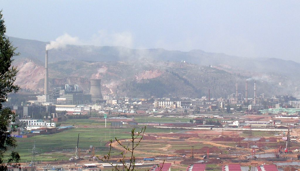 Kunming industrial zone on the west coast of the "dian chi lake" taken from the west mountain (XiShan), Yunnan, China